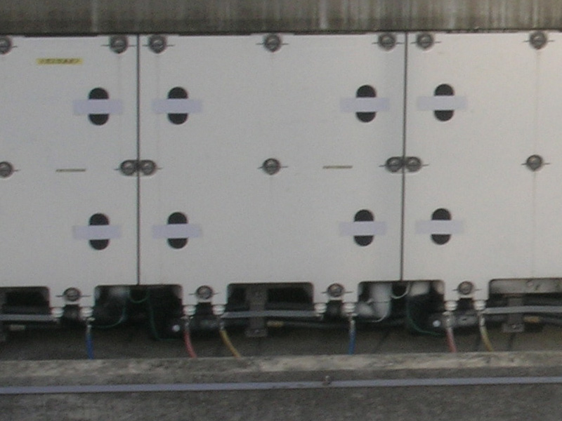 Photo by Yosemite.